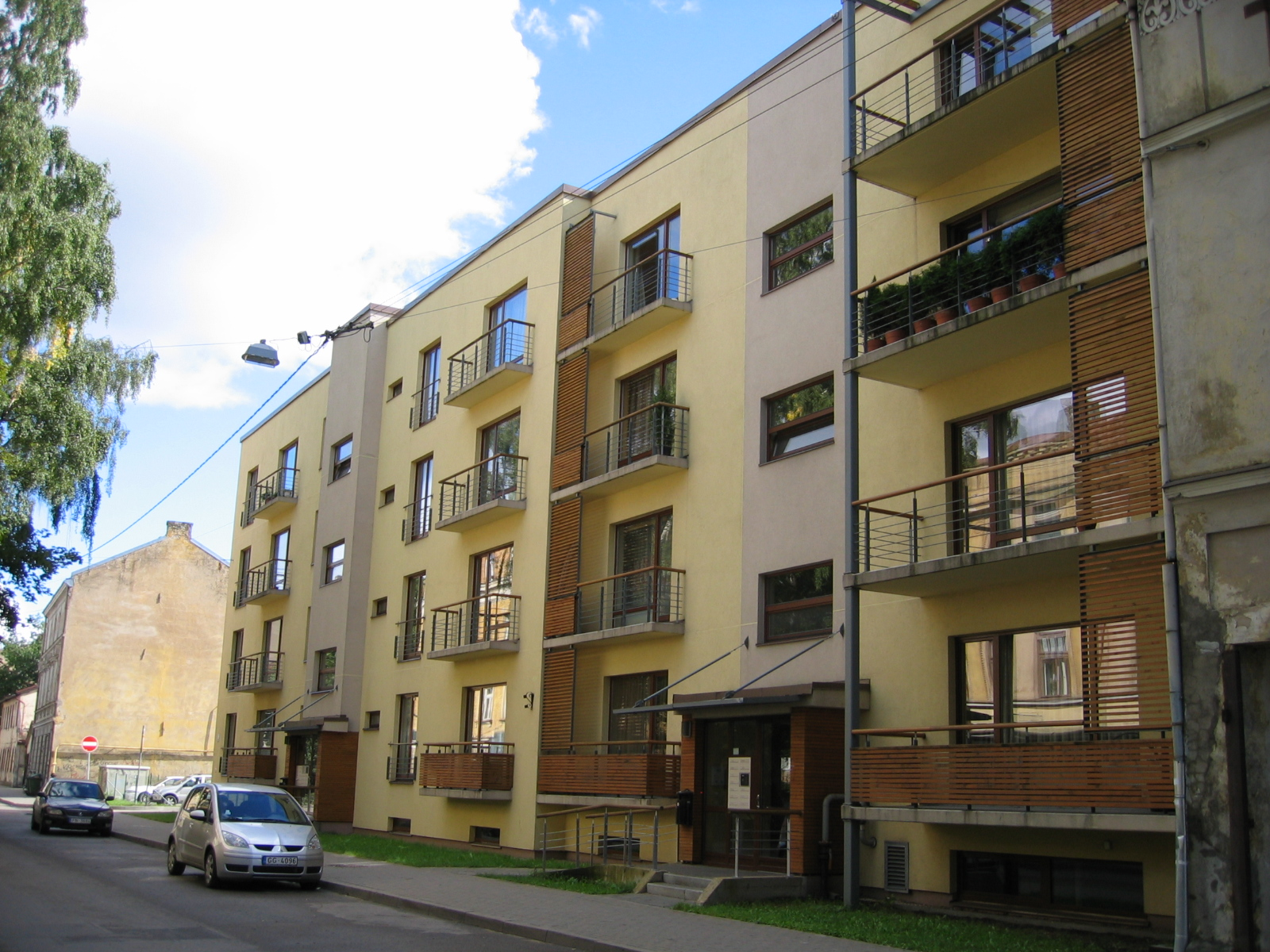 Modern apartment building on Nometņu Street in Agenskalns